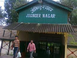 Entry point of Jogindernagar Railway Station